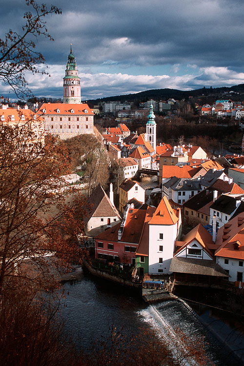 Český Krumlov